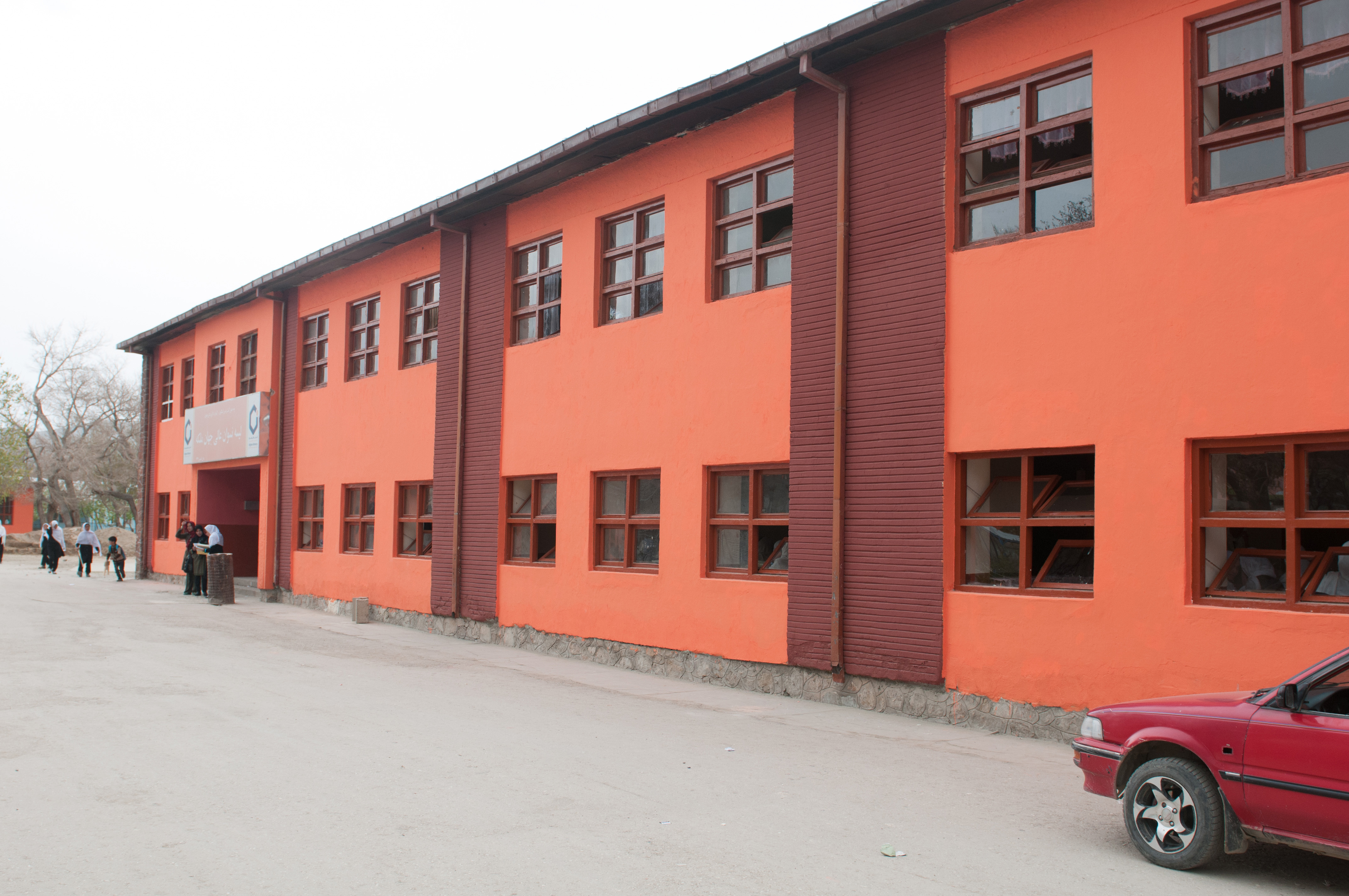 View of the newly renovated Jahan Maleeka School in Ghazni City, Ghazni province, Afghanistan, April 21. Jahan Maleeka is an all-girls school and has over 5000 students and 150 teachers. The school received supplies and support from the the Nejat Community Council, who coordinated and distributed supplies to the school's teachers. The council's mission is to eradicate oppression, corruption, and injustice in coordination with the Afghan government. (Photo ID: 914879)